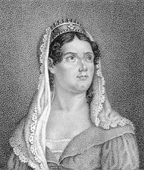 Italian opera singer Carolina Bassi (1781-1862) by Luigi Rados (1773-1840). Stipple engraving.